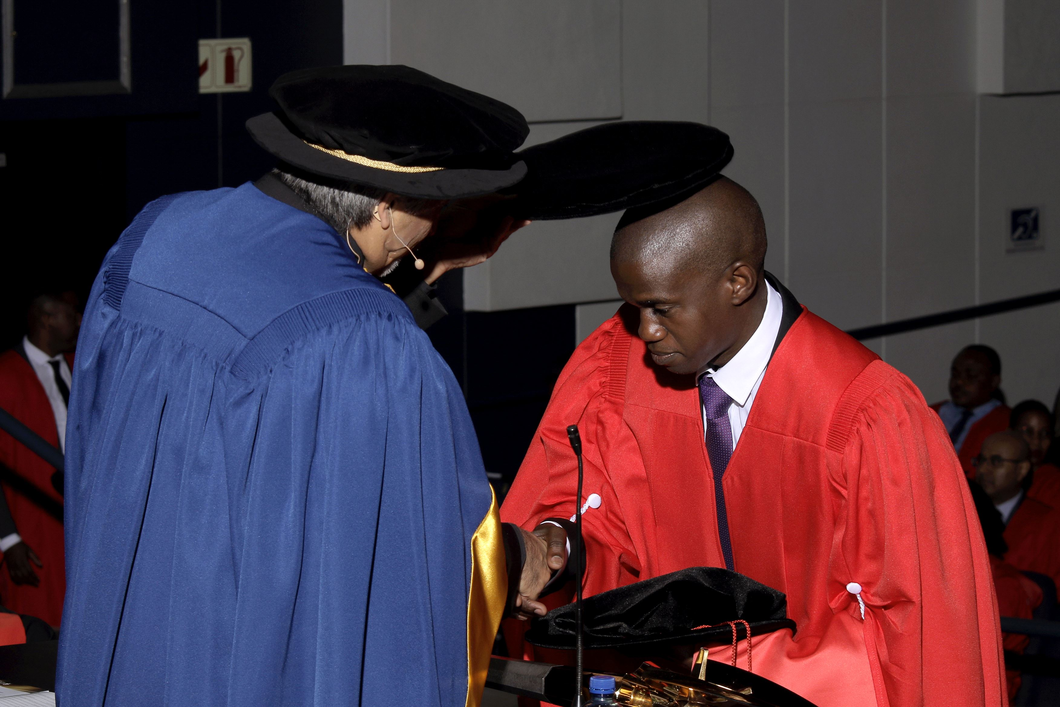 Graduation ceremony